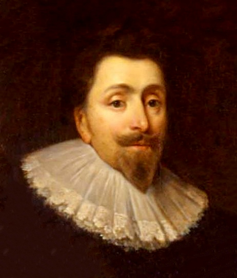 George Calvert (1578/79-1632) First Lord Baltimore MSA SC 3520-2167